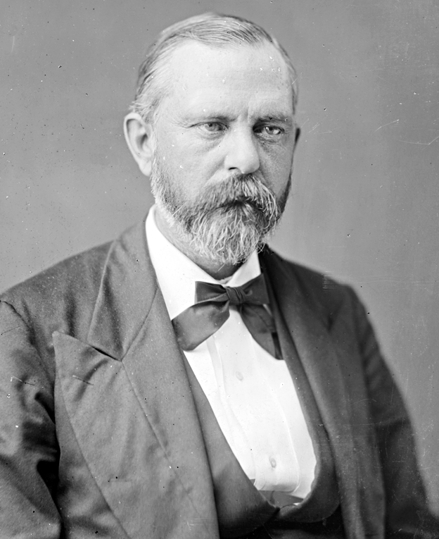 Robert B. Vance, US Representative from North Carolina